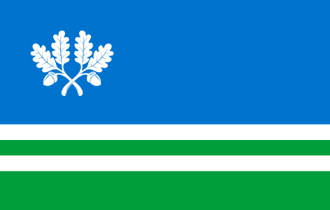 The Flag of the Tapa Commune (Parish) from 2017.